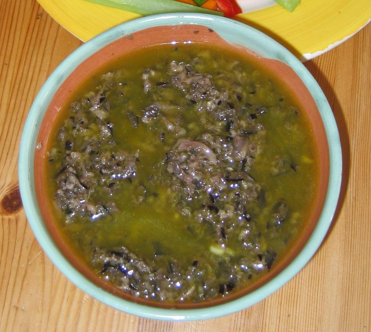 Anchoiade